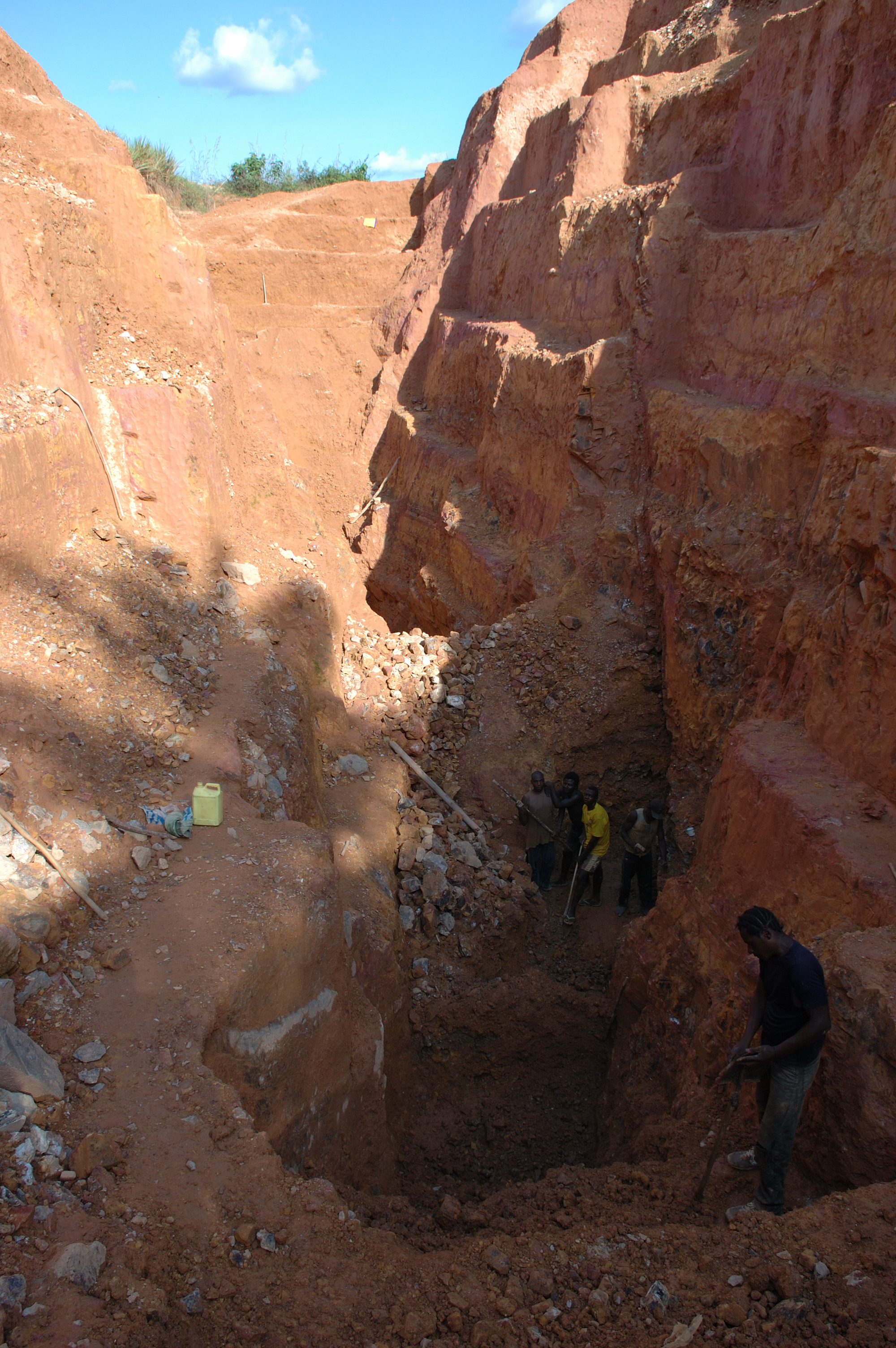 The mine was a challenge to my preconceptions. In Kailo they mine wolframite and casserite. Before the war the mines were operated by a state run company, the defunct infrastructure can be glimpsed under bushes and vines. The company still has a smart office in the centre of the village, but instead of mining they take a percentage of the proceeds of the artisan miners and the traders. Most of the workers are from the area, although I met some from the province of Kasai. Children were working with their parents, helping with panning for the ore, carrying and selling goods to the workers. The mine is made up of widely dispersed open pits. Most pits were 4 to 10 metres deep with the occasional 25 metre pit. Next to the pits were the temporary huts of the workers. There did not appear to be the squalor or disease that we find in gold mines. Although there were ëmaison de toleranceí as they are politely called here with the associated risks of sexual diseases, AIDS and child prostitution. As we left the mine we crossed two four wheel drive cars carrying men from a British company interested in investing in the mine.